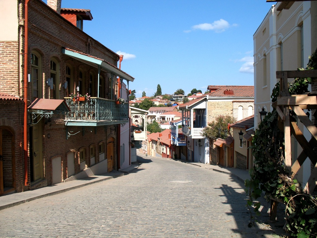 Sighnaghi